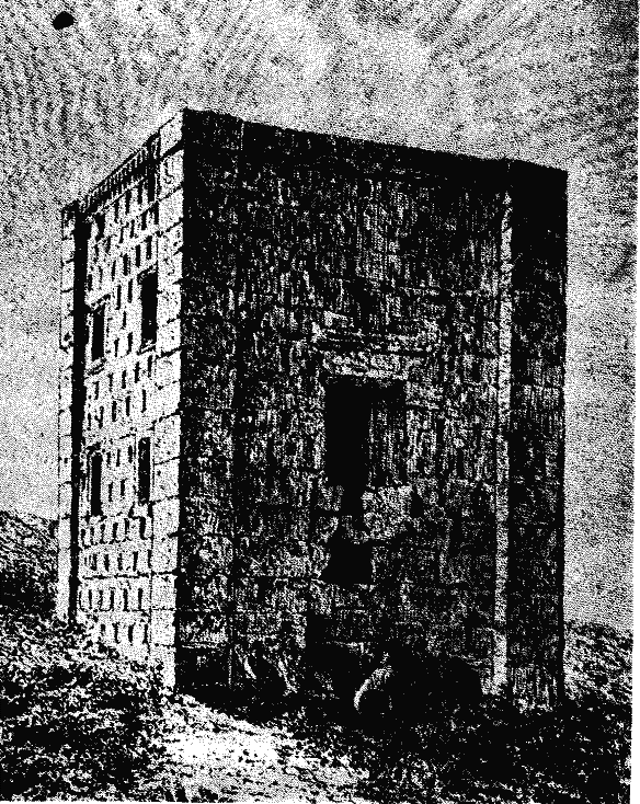 Kabe Zartosht By Jane Dieulafoy